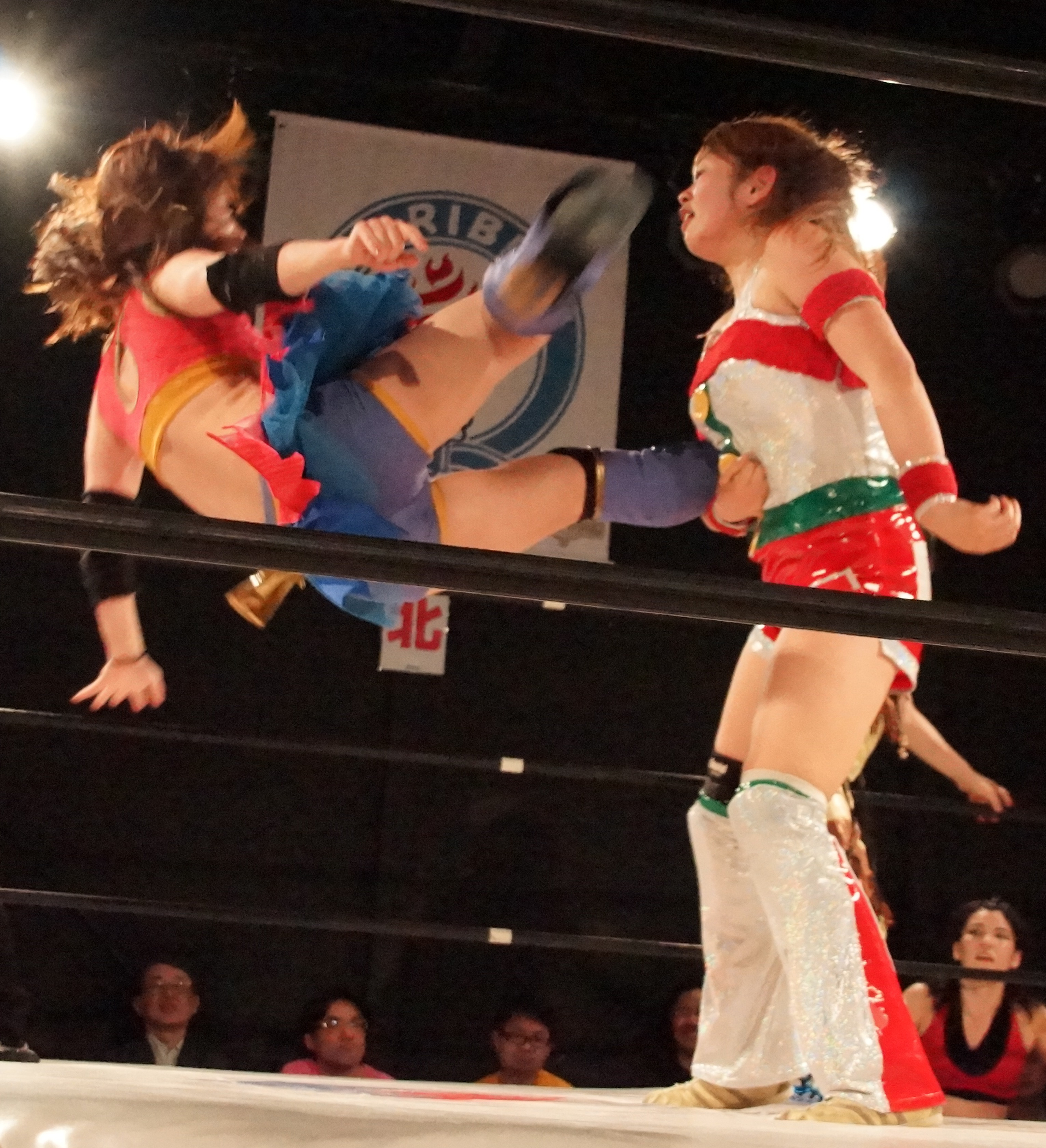 Professsional wrestler Tsukasa Fujimoto performing an enzuigiri on Aoi Kizuki at an Ice Ribbon event.